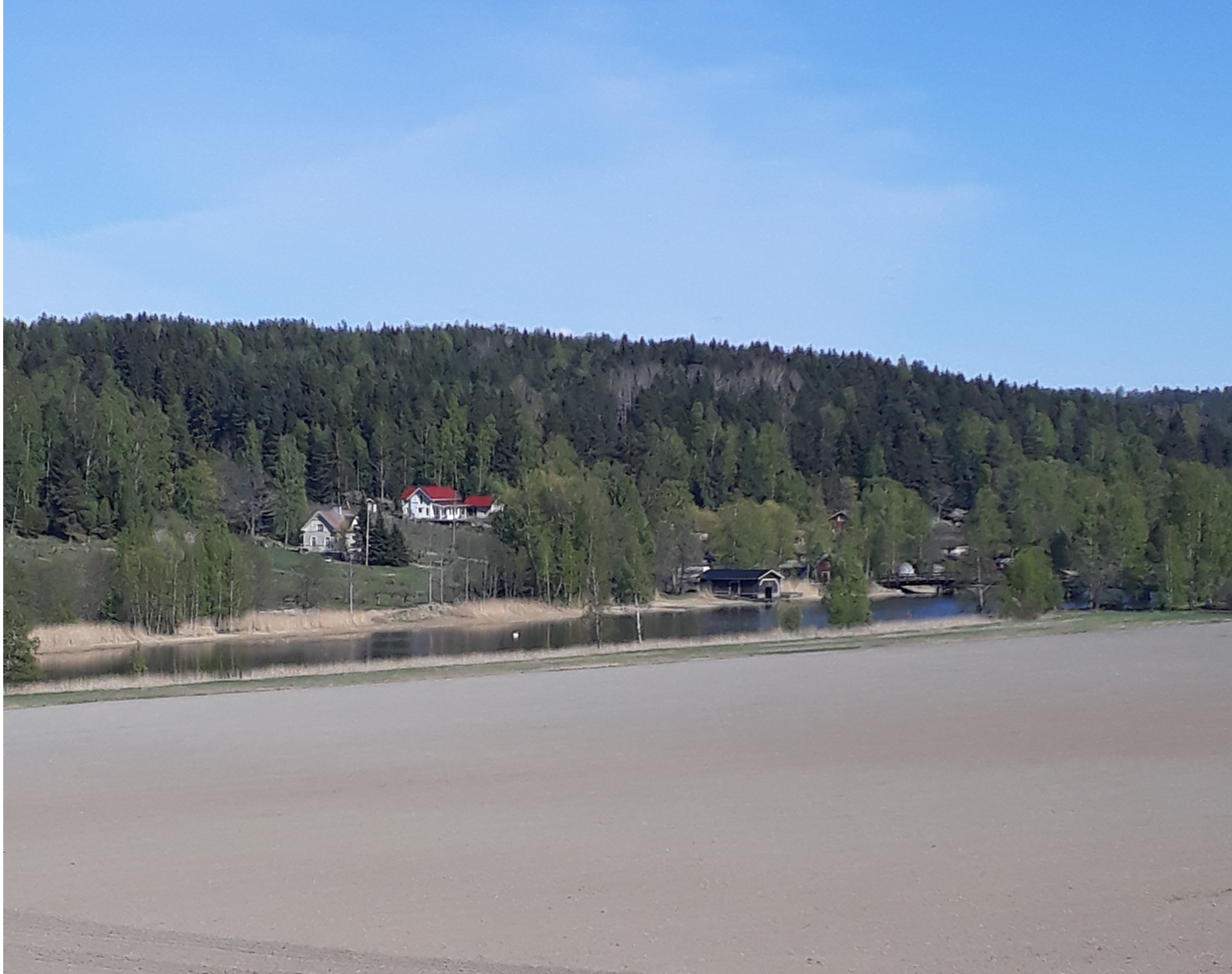 Strait of Angelansalmi. It lies between the islands of Angelansaari and Kimito. Salo, Finland.